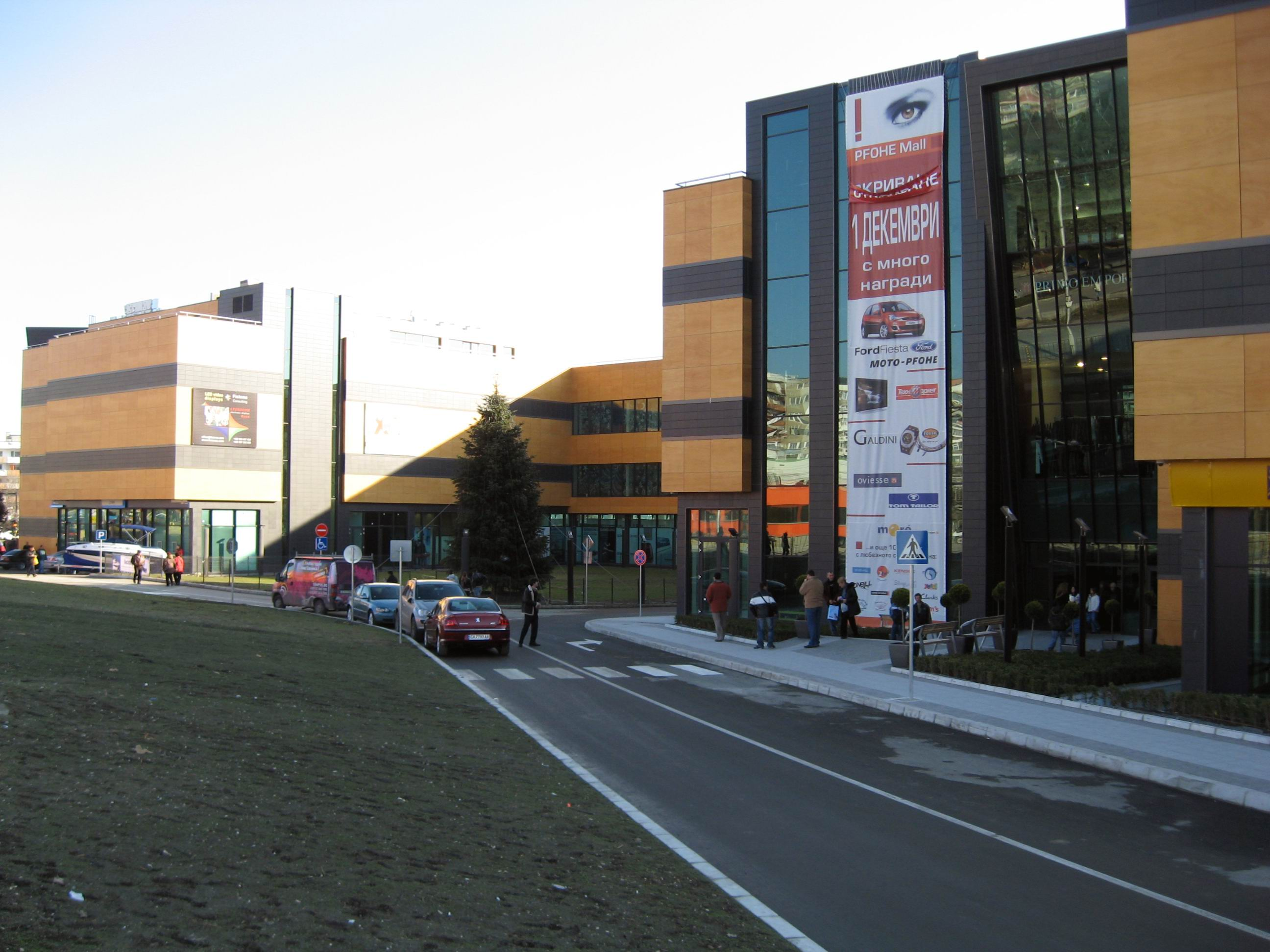 Pfohe Mall in Varna, Bulgaria